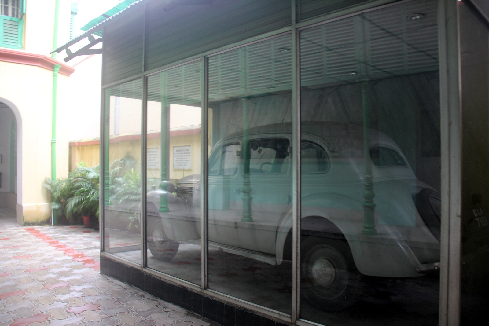 This is the car (Wanderer BLA 7169) in which Sisir Kumar Bose drove Netaji Subhas Chandra Bose from this house in Calcutta on the night of 16th-17th January 1941 to Gomoh on the first leg of Netaji's great escape